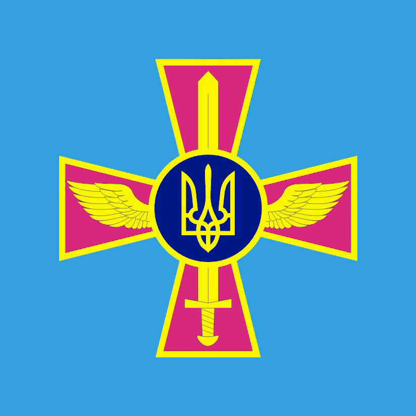 Standard of the Ukrainian Air Force Commander-in-Chief.